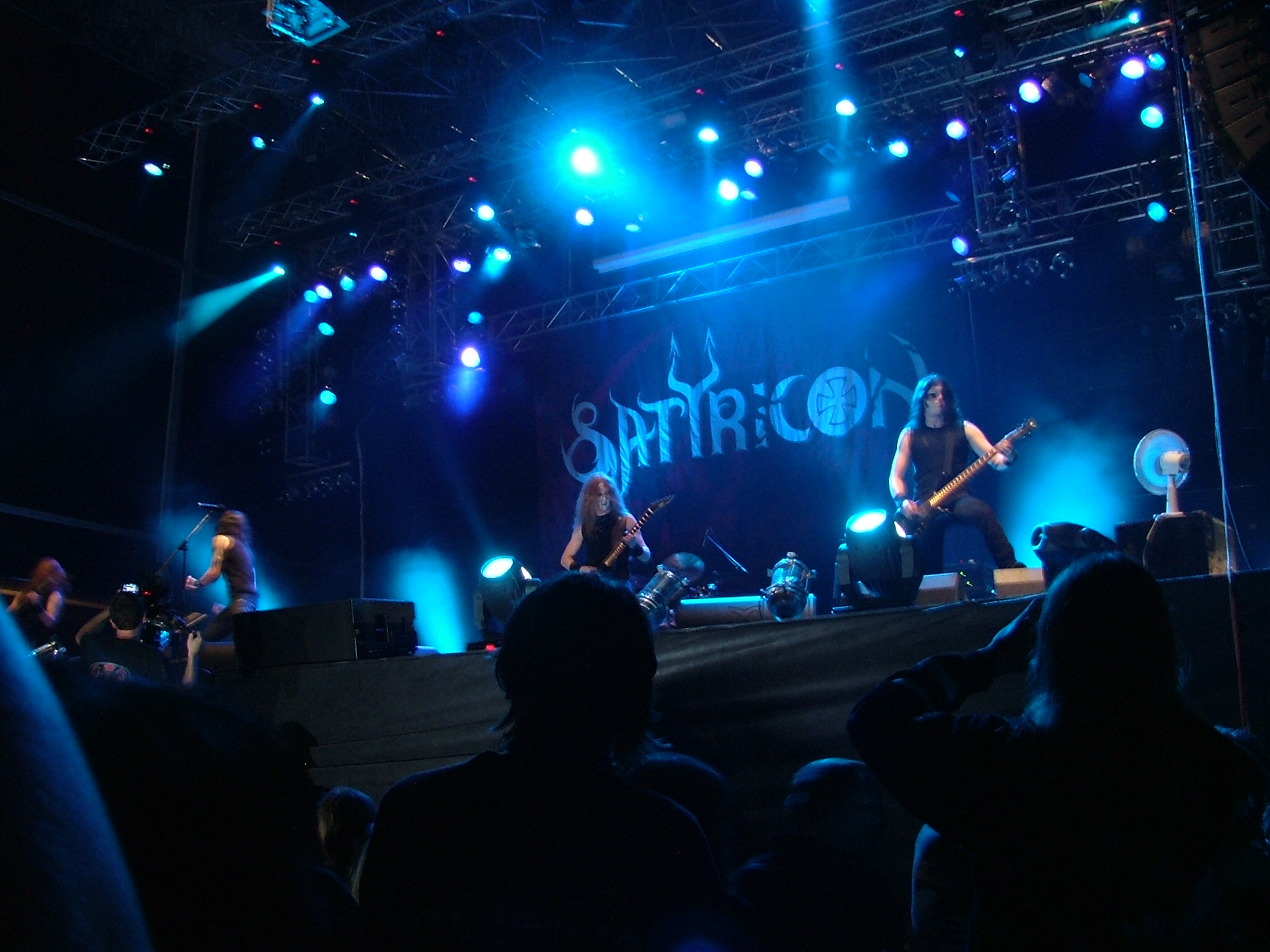 Norwegian black metal band Satyricon at the Metalcamp in Tolmin